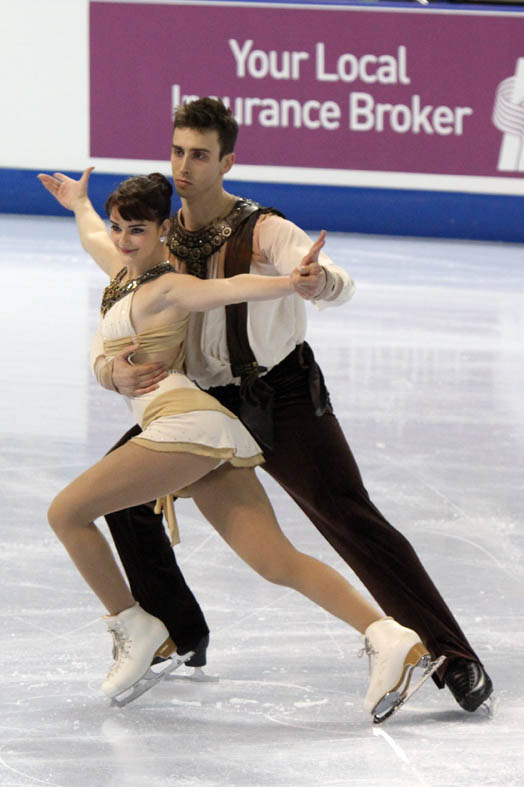 Jade-Savannah Godin and Andrew Evans at the 2011 Canadian Figure Skating Championships.